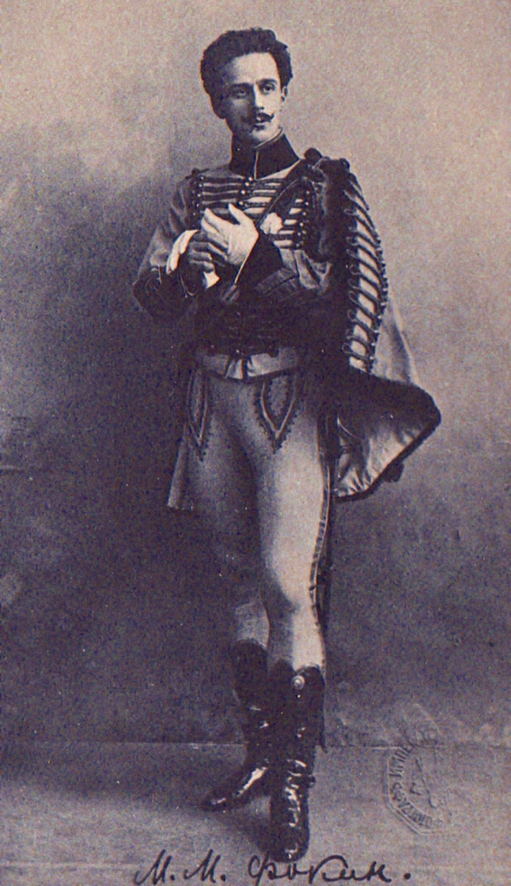 Photographic postcard of Mikhail Fokine (1880-1942) costumed for the role of Lucien d'Hervilly in the choreographer Marius Petipa's (1818-1910) production of the choreographer Joseph Mazilier (1801-1868) and the composer Edouard Deldevez's (1817-1897) 1846 ballet Paquita.